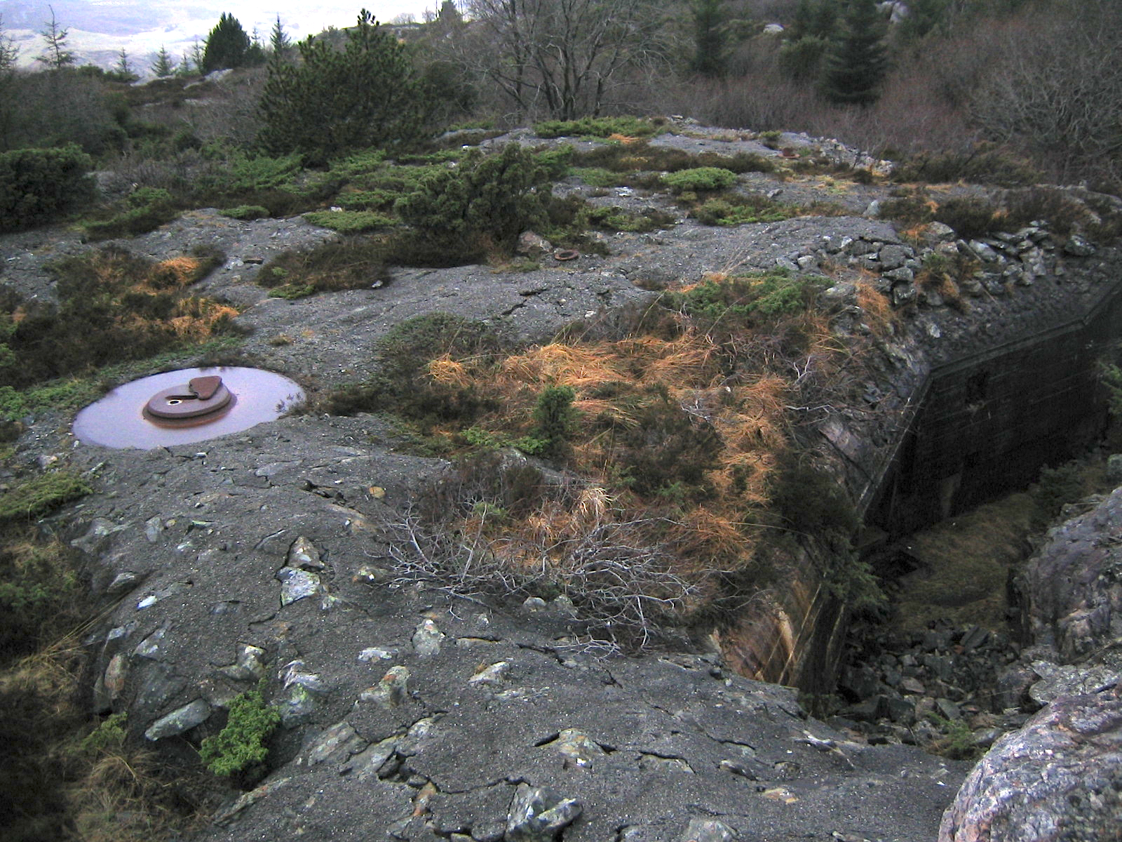 A Regelbau, R633, housing the M-19 Maschinengranatenwerfer, automatic 5cm mortar. This one is from Fjell Festning, Hordaland, Norway.